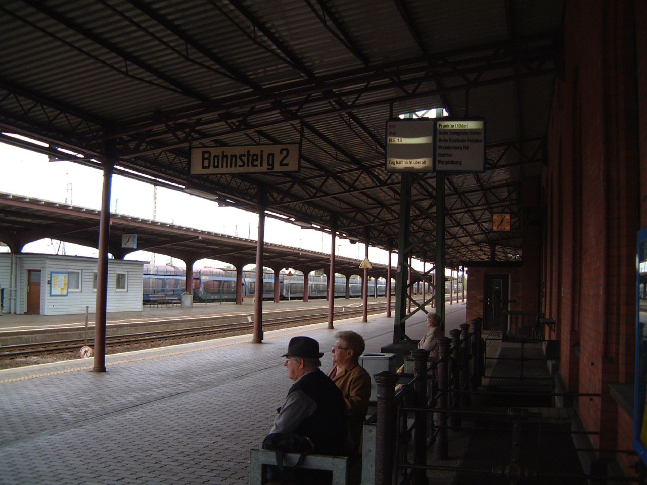 Platform 2 of Guben railway station